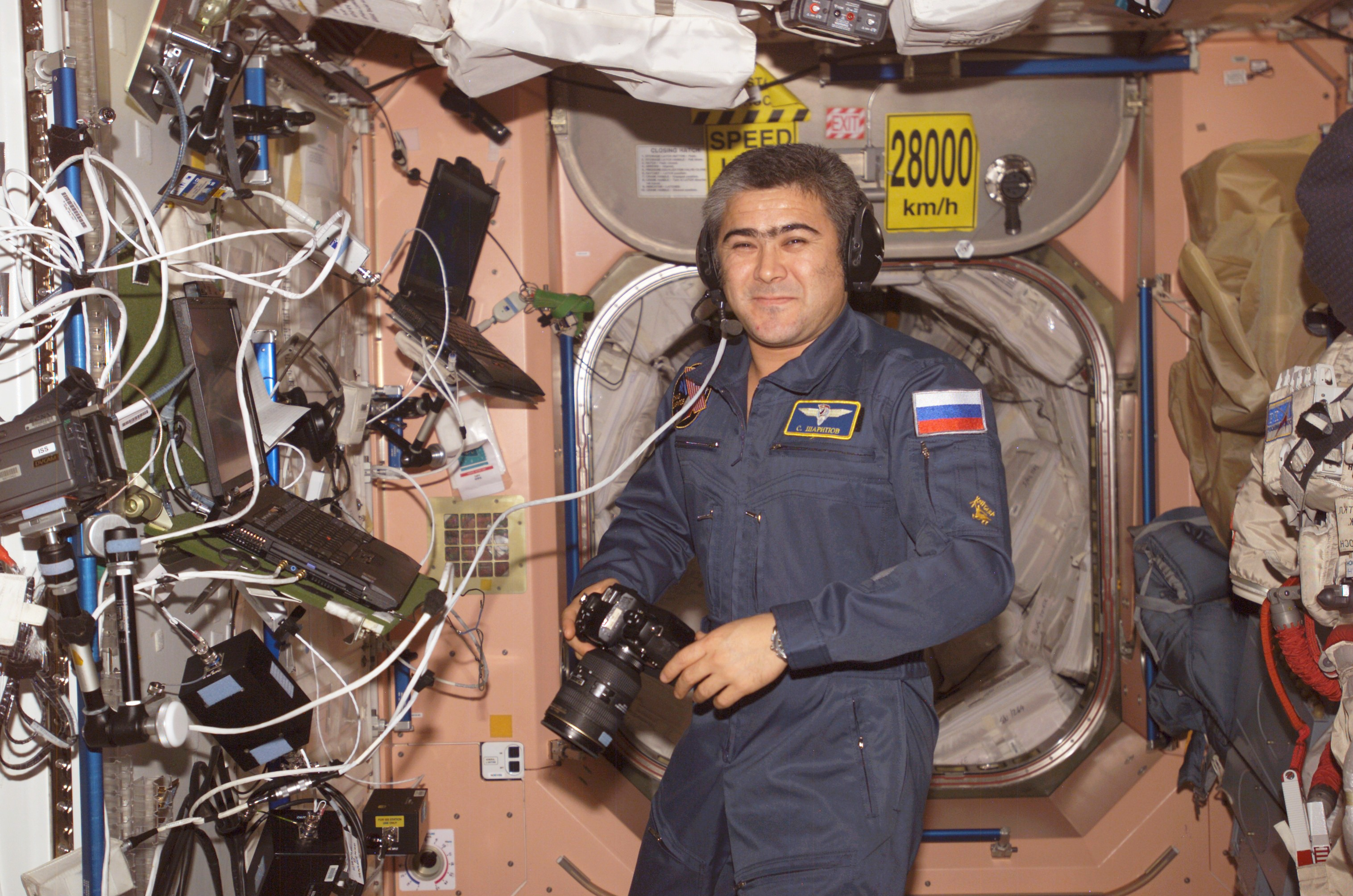 Cosmonaut Salizhan S. Sharipov, Expedition 10 flight engineer representing Russia's Federal Space Agency, holds a still camera while using a communication system in the Unity node of the International Space Station (ISS).